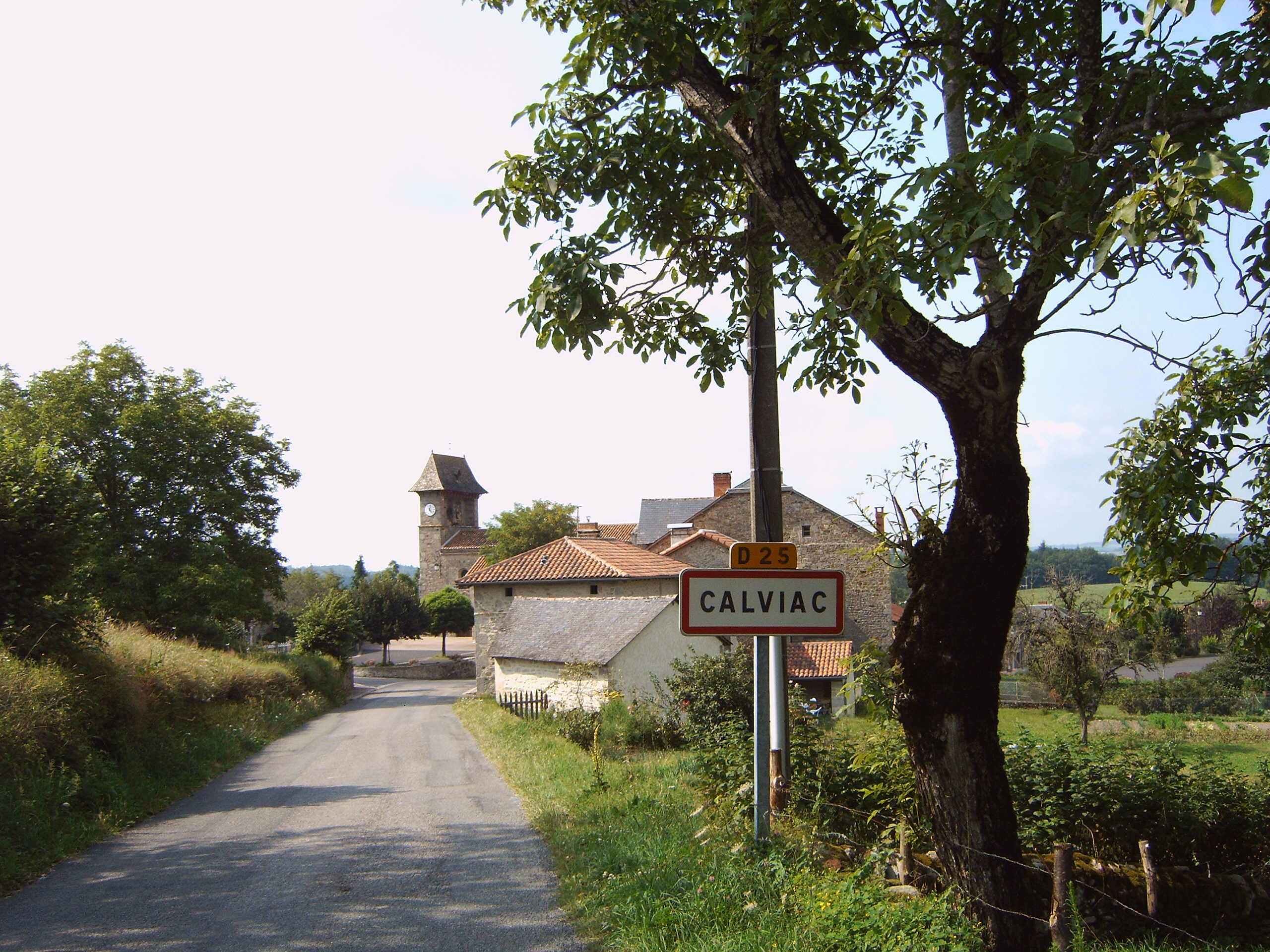 View of Calviac, Dept. Lot, France. It's not a spectacular view, but I think it's a fairly typical French village, and anyway, it has an article on the Dutch Wikipedia